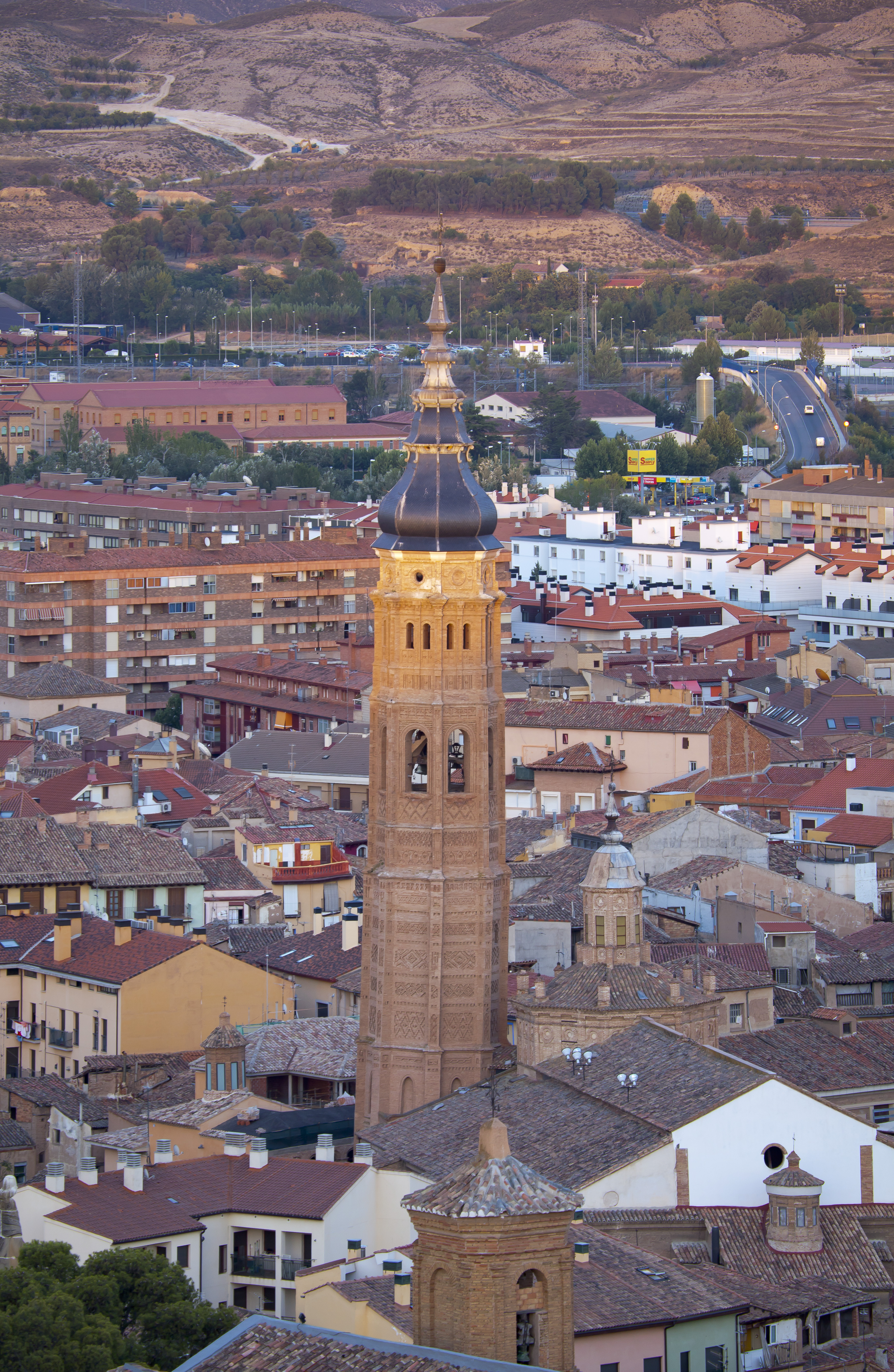 Colegiata de Santa María, Calatayud, Spain